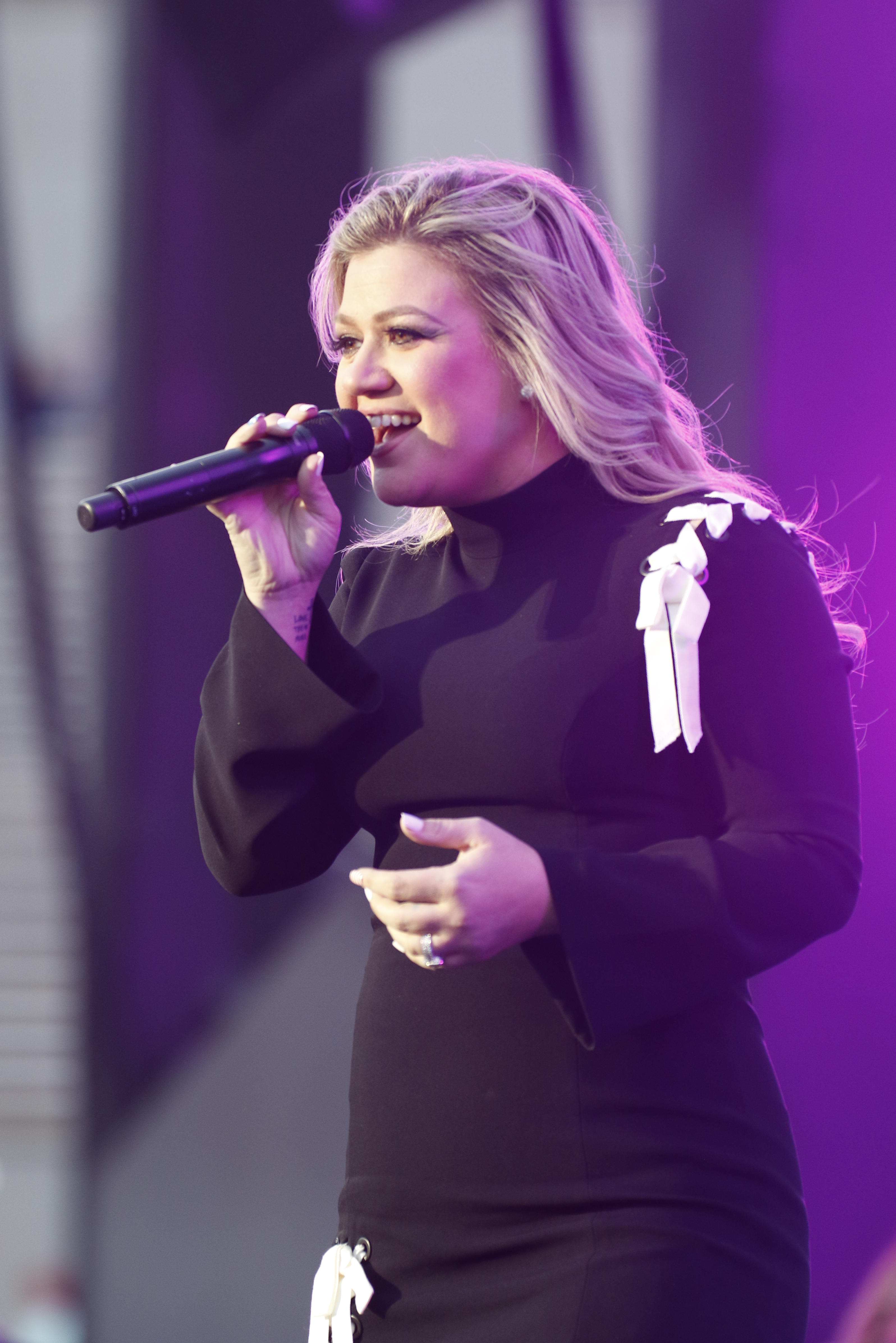 The 2018 Department of Defense Warrior Games Opening Ceremonies featured the introduction of athletes, the lighting of the Games torch and a concert by Kelly Clarkson at the Air Force Academy in Colorado Springs, Colo. June 2, 2018. The Warrior Games are a Paralympic-style annual competition, established in 2010, to provide adaptive sports opportunities for wounded, ill and injured service members from all U.S. service branches and international military teams. (DOD Photo By: Marc Piscotty)